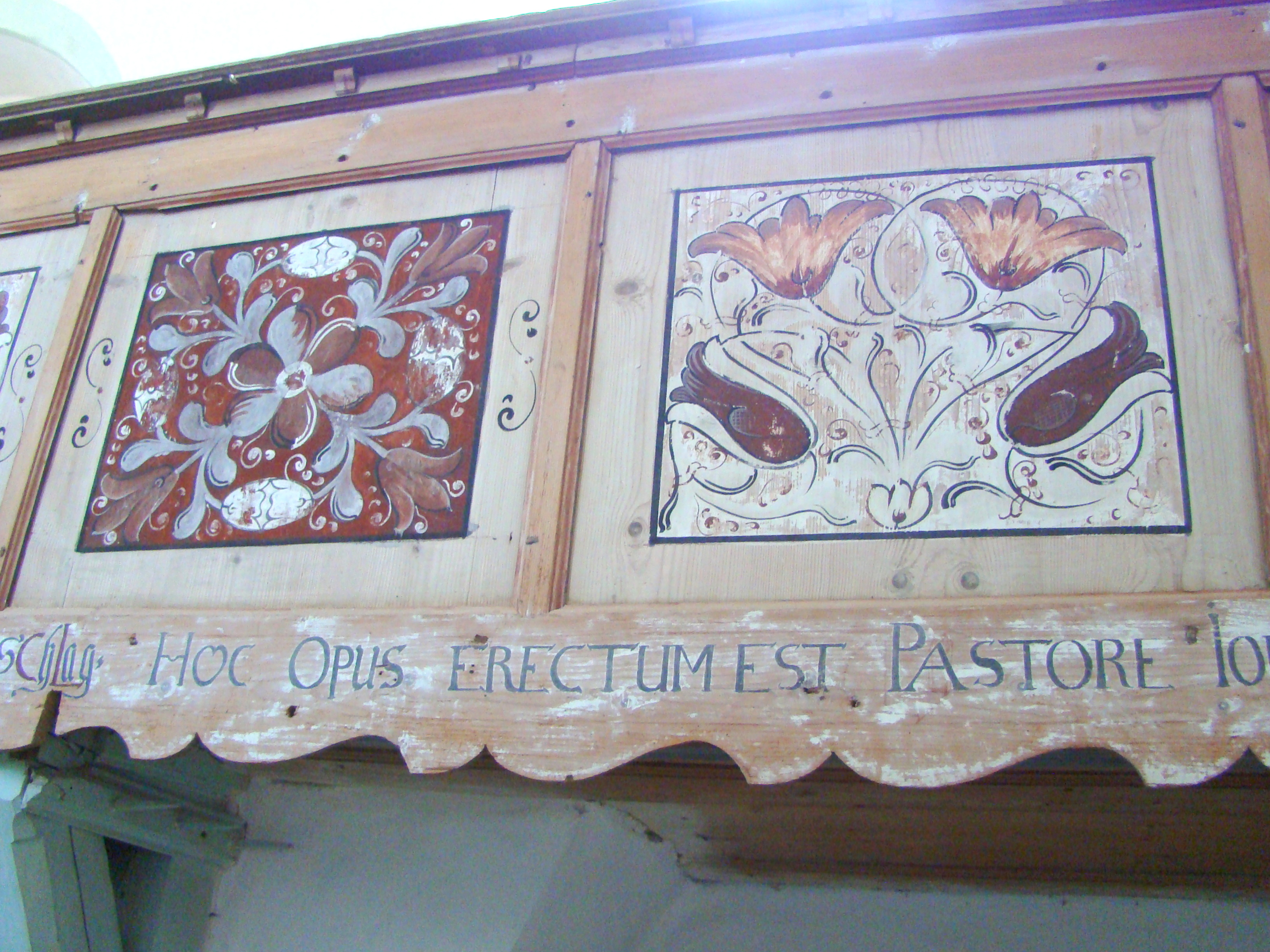 Fortified church in Bunești, Brașov County, Romania